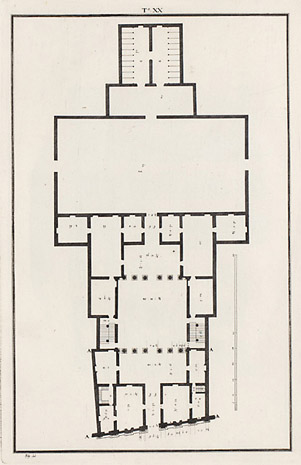 Palazzo Valmarana in Vicenza built by Andrea Palladio in 1565. Drawing from Ottavio Bertotti Scamozzi, 1776.